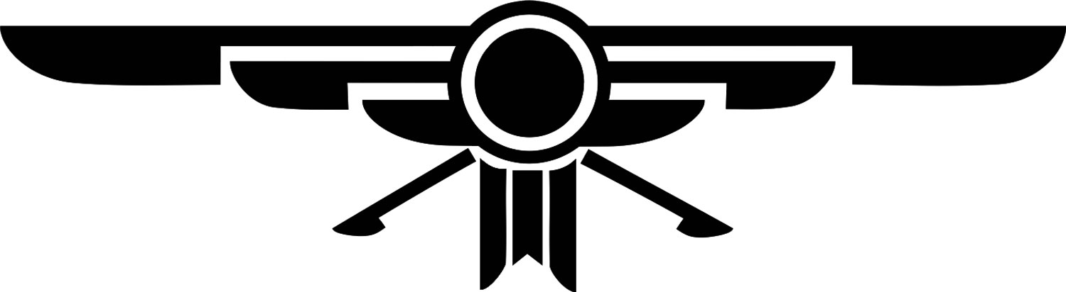 it's manthra logo